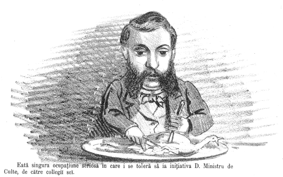 Eată singura ocupaţiune seriósă în care i se toleră să ia iniţiativa D. Ministru de Culte, de către collegiĭ seĭ ("This be the only serious employment that the Minister of [Culture and] Religious Affairs might still be allowed to initiate, as far as his colleagues care"); political cartoon in Ghimpele, the Romanian liberal magazine. The Minister referred to is Ioan Strat, a Moldavian moderate who had replaced the Wallachian liberal C. A. Rosetti. Ghimpele implies that Strat was a mere puppet of Premier Ion Ghica.